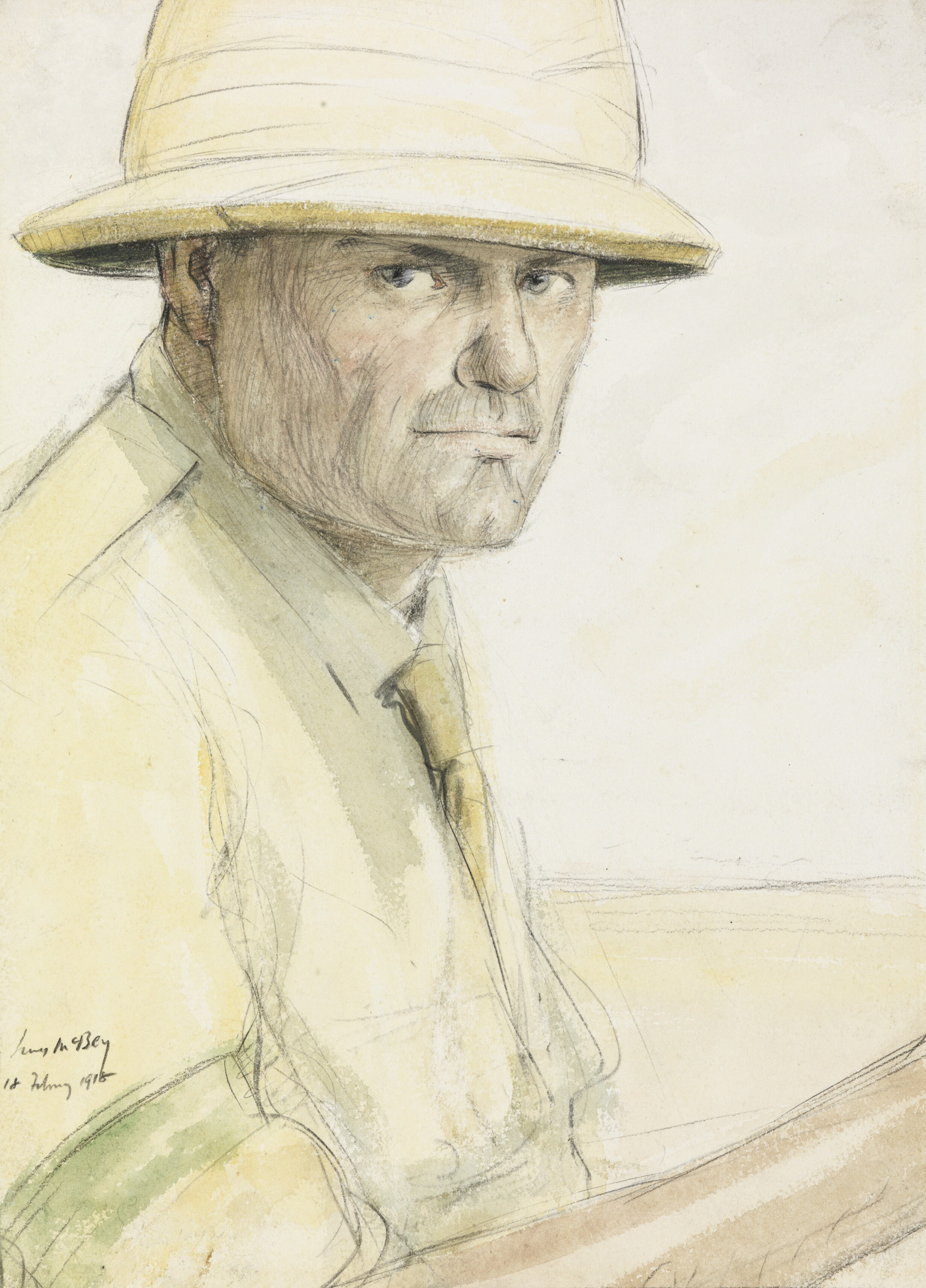 Portrait of the Artist image: a half-length self-portrait of McBey in solar topi, shirt and tie. His right arm is bent in the foreground, as if working with an easel in front of him.